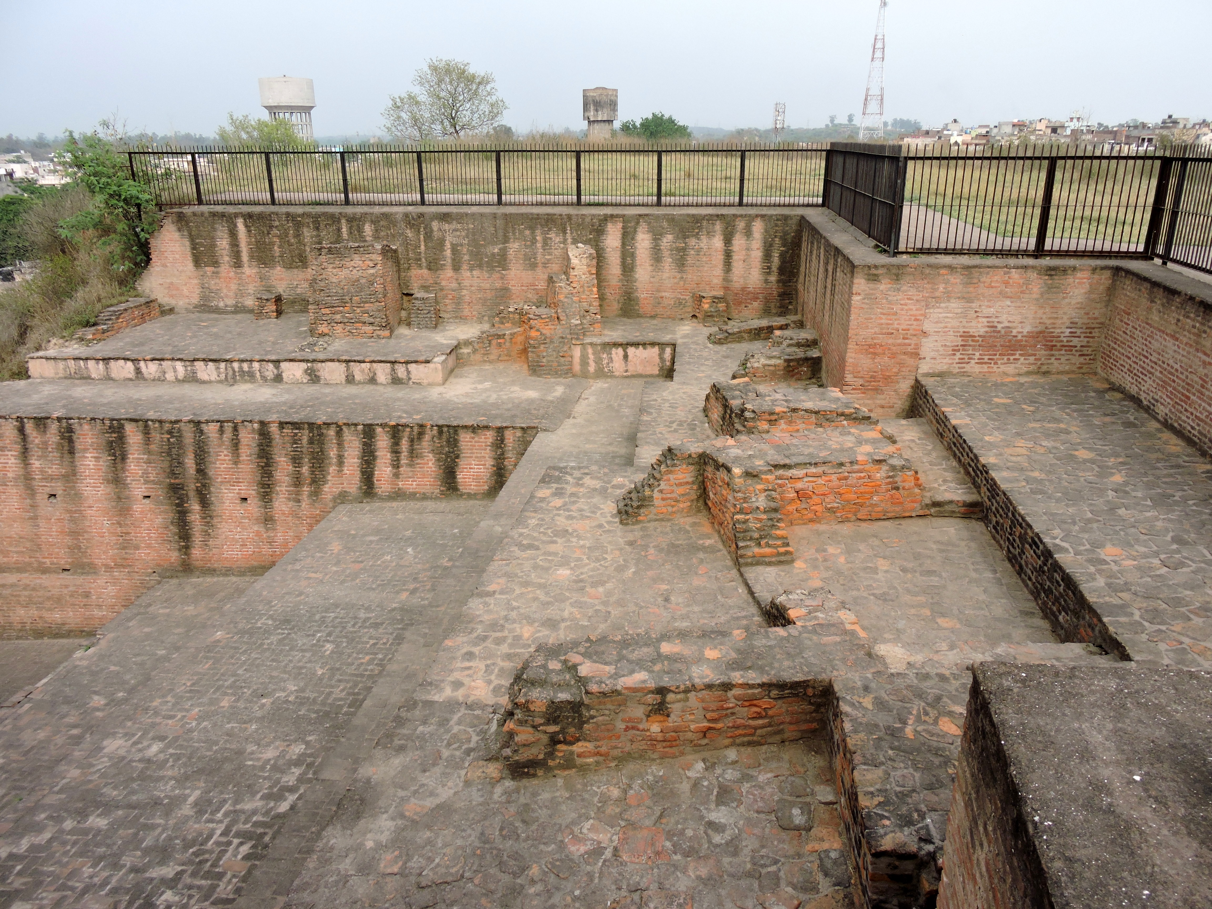 Ruins of Indus Valley Civilization site, Rupnagar, Punjab,India